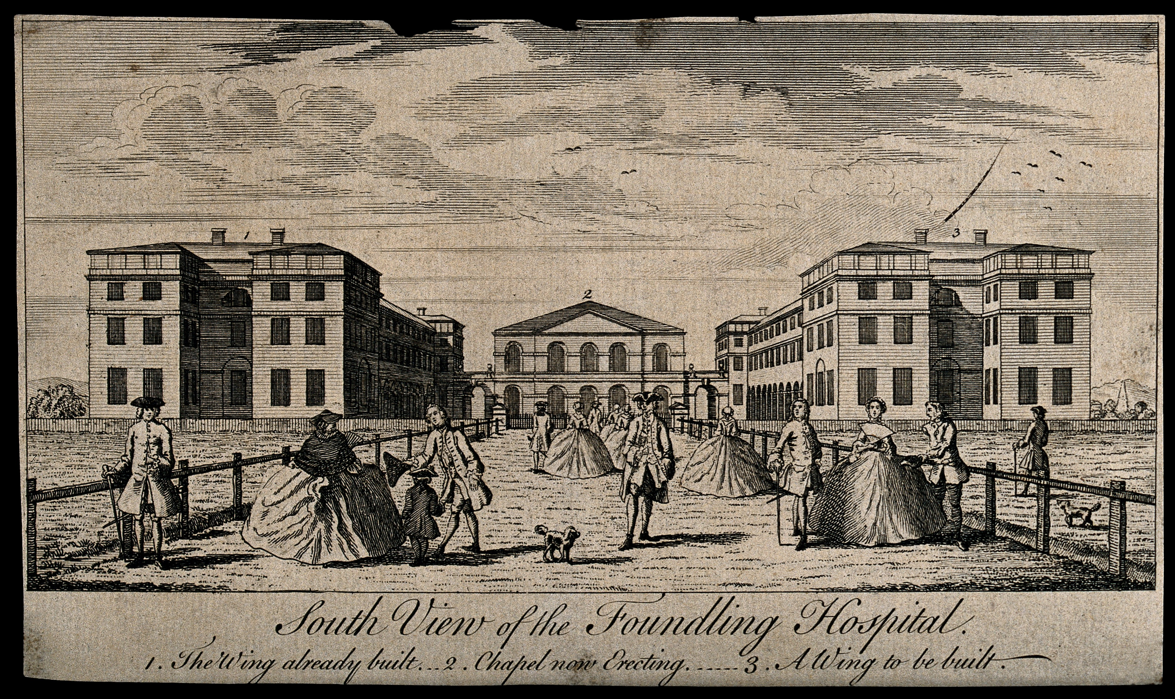 The Foundling Hospital, Holborn, London: the main buildings, with numerous people in the foreground. Engraving, n.d. [c.1750]. Iconographic Collections Keywords: Theodore Jacobsen; Foundling Hospital (London)